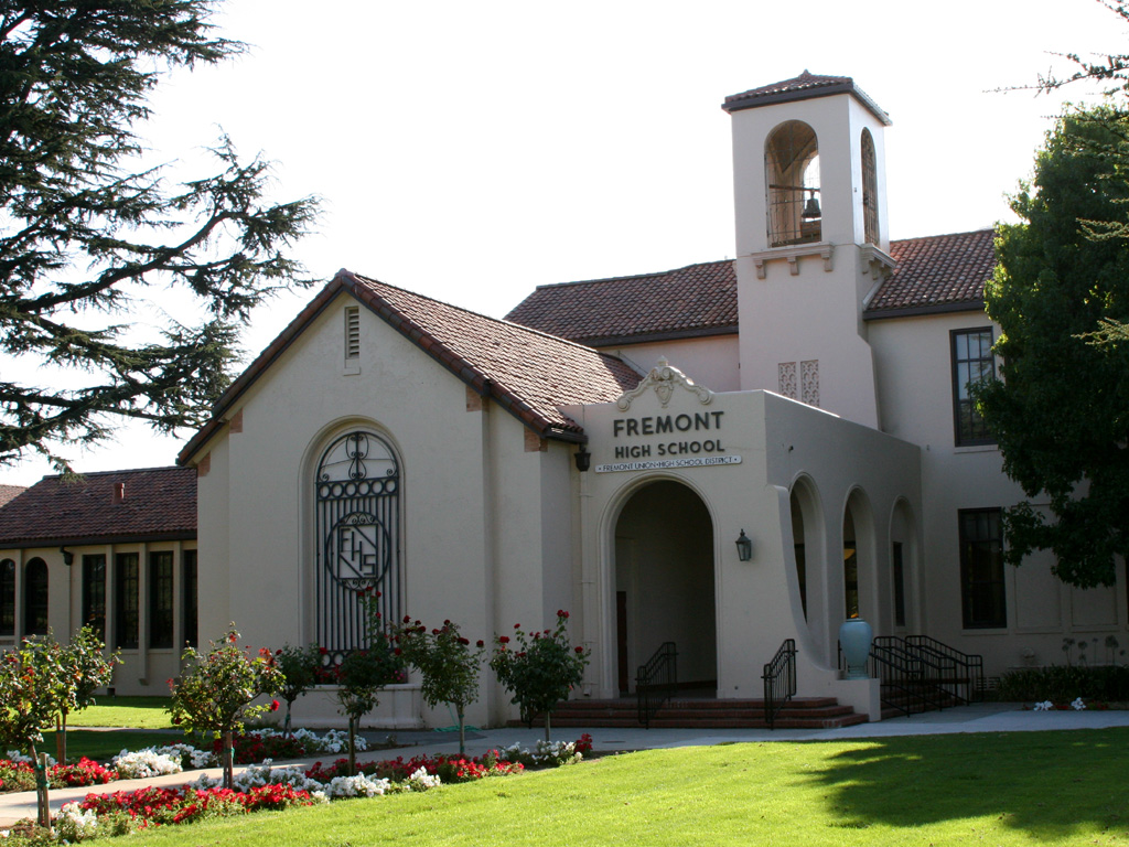 Fremont High School (San Jose, California) entrance. Photograph taken by Bahn Mi of the Schoolwatch Programme and released freely under the Creative Commons Attribution ShareAlike 2.0 license.